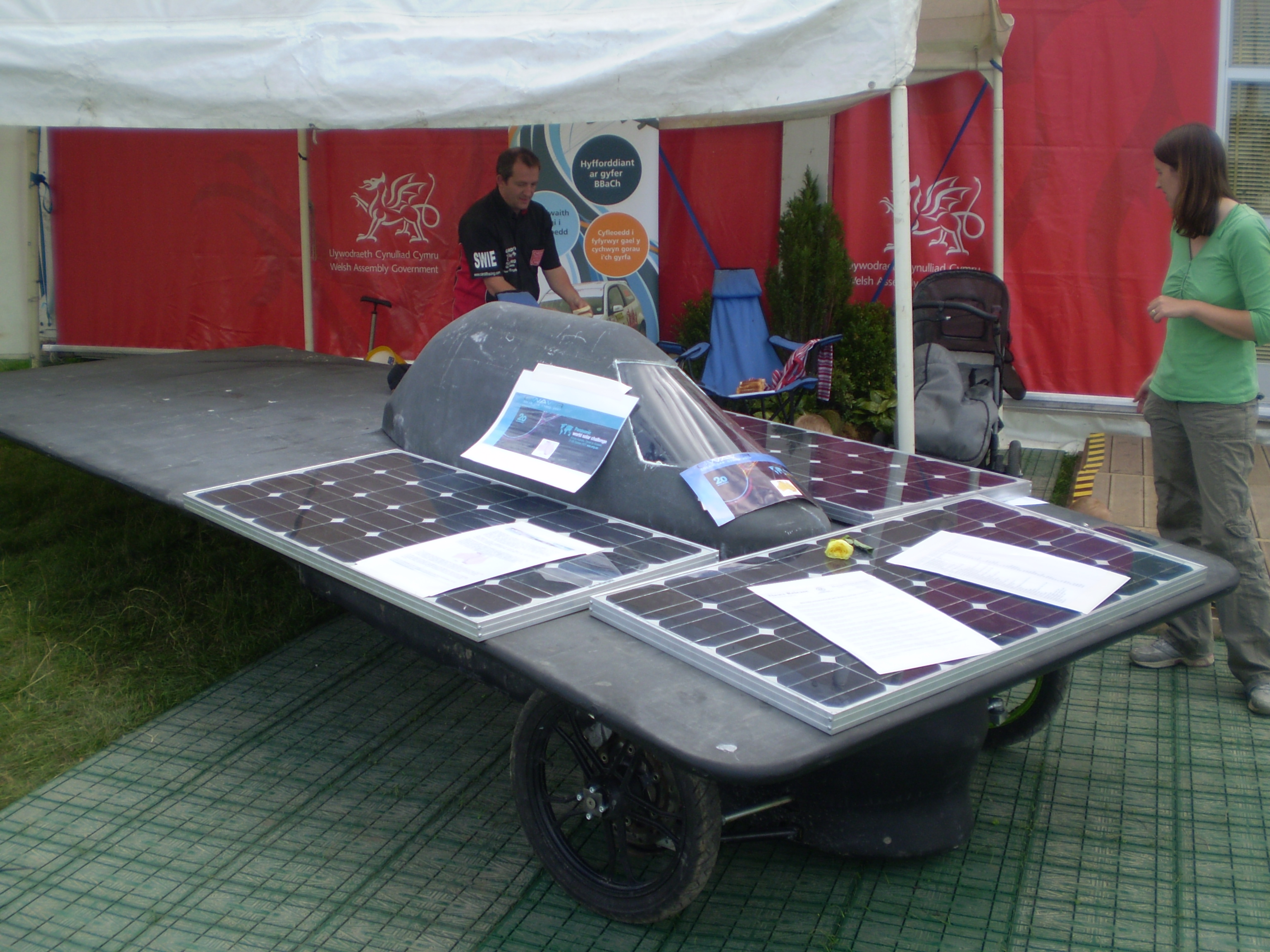 Solar vehicle "Gwawr", the Welsh entry in the October 2007 Trans-Australia solar powered vehicle race